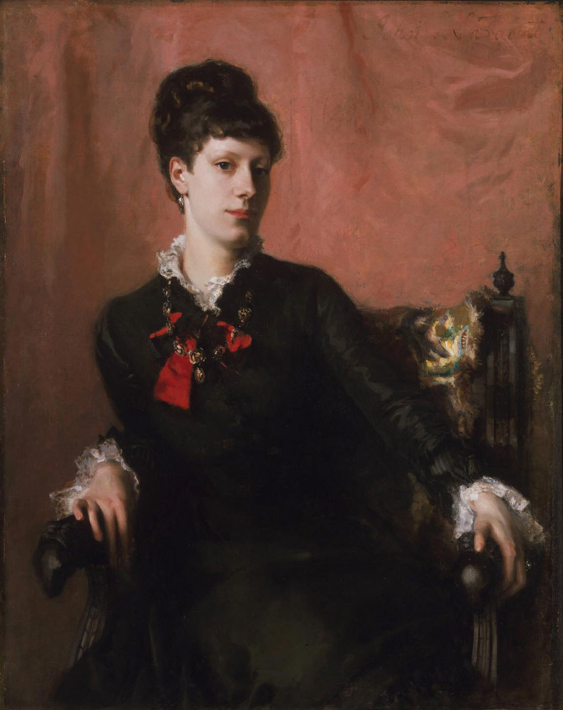 "Fanny" Watts was a childhood friend of the artist. The painting was the first that Sargent submitted to the Paris Salon